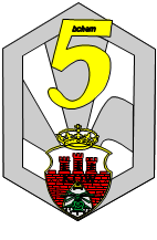 official logo of 5 chemical battalion of Polish Army